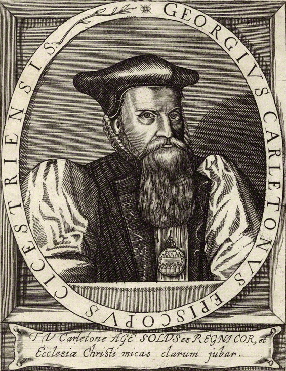 George Carleton (1559-1628)